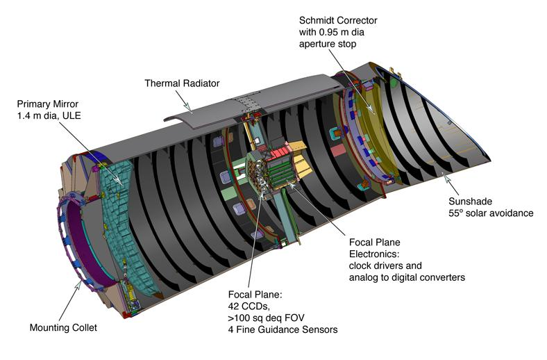 Labeled illustration of the Kepler Spacecraft